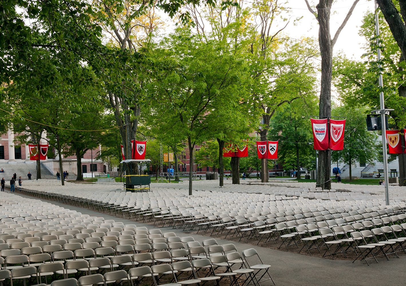 Harvard University graduation seating, stage perspective